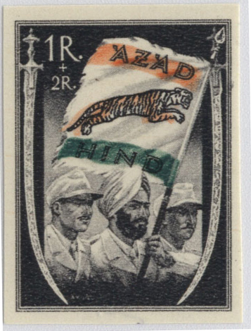 Stamp of "Azad Hind", 1943 Stamps produced in Germany, prepared by the German Government for India, but never issued